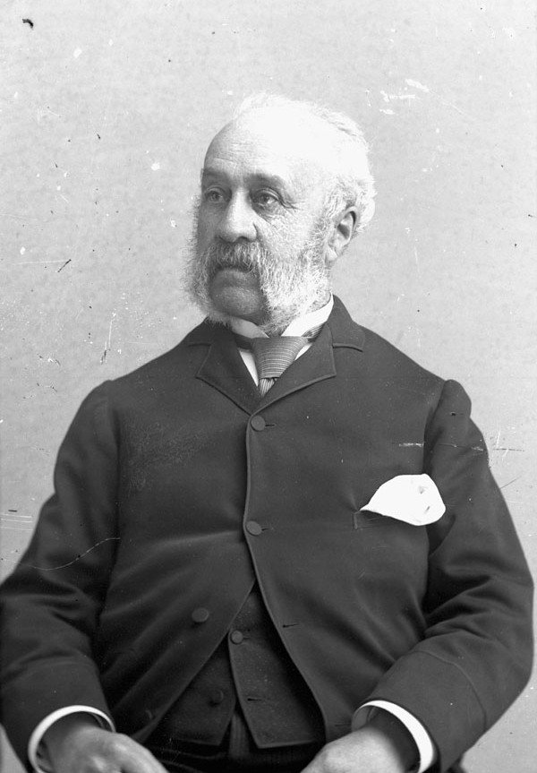 Thomas Fuller (March 8, 1823 – September 28, 1898), a prominent Canadian architect.